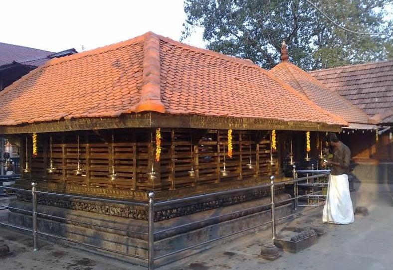 Poovattoor Temple Sannidhanam